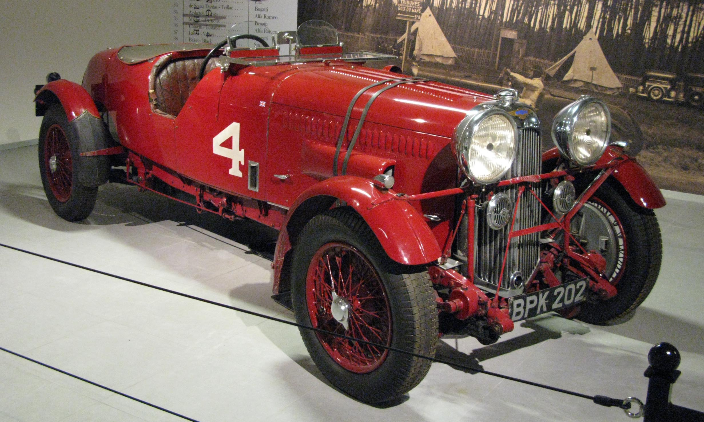 1935 Lagonda M45 Rapide.